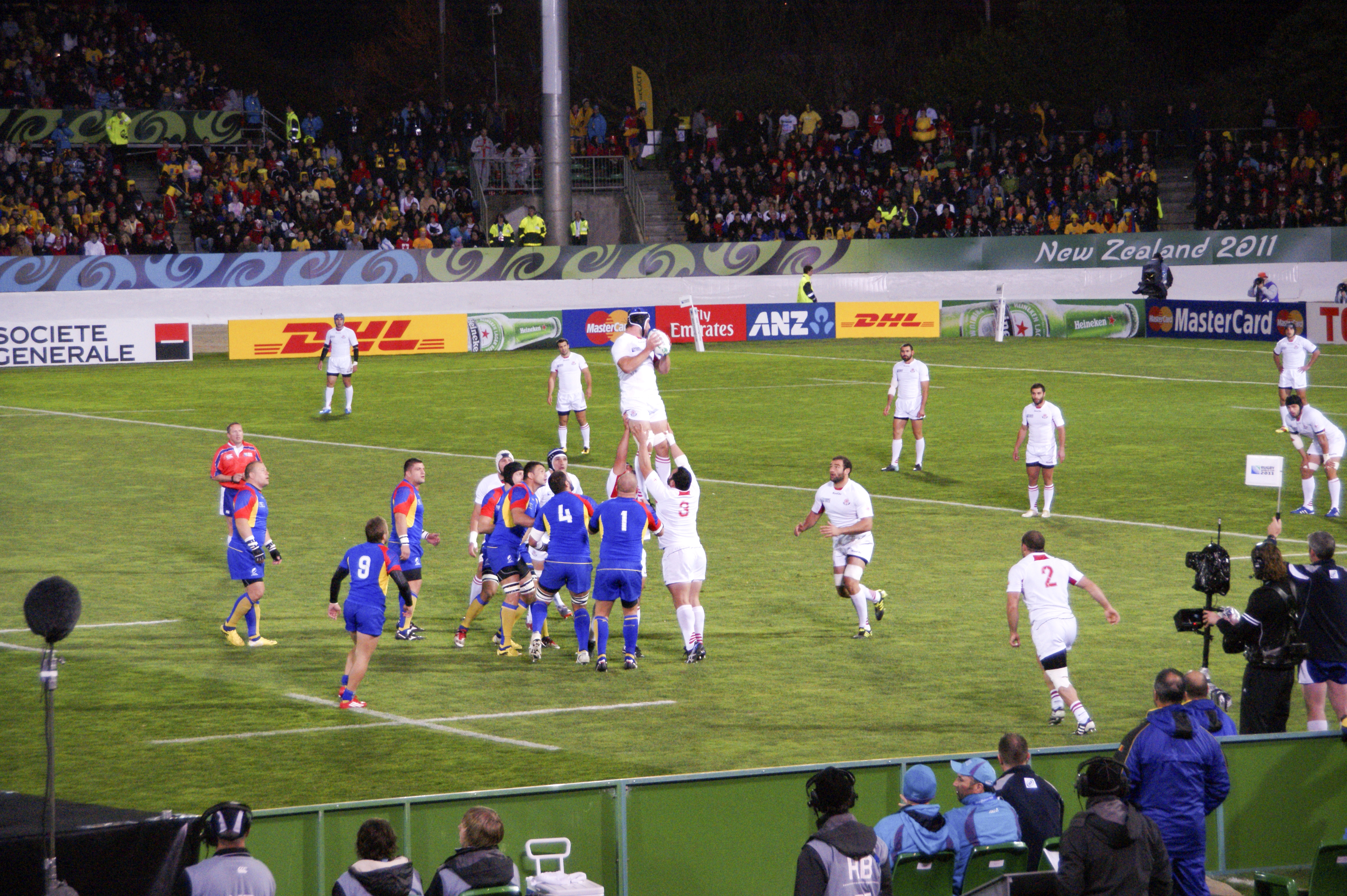 Match between Georgia vs Romania during 2011 Rugby World Cup in New Zealand.